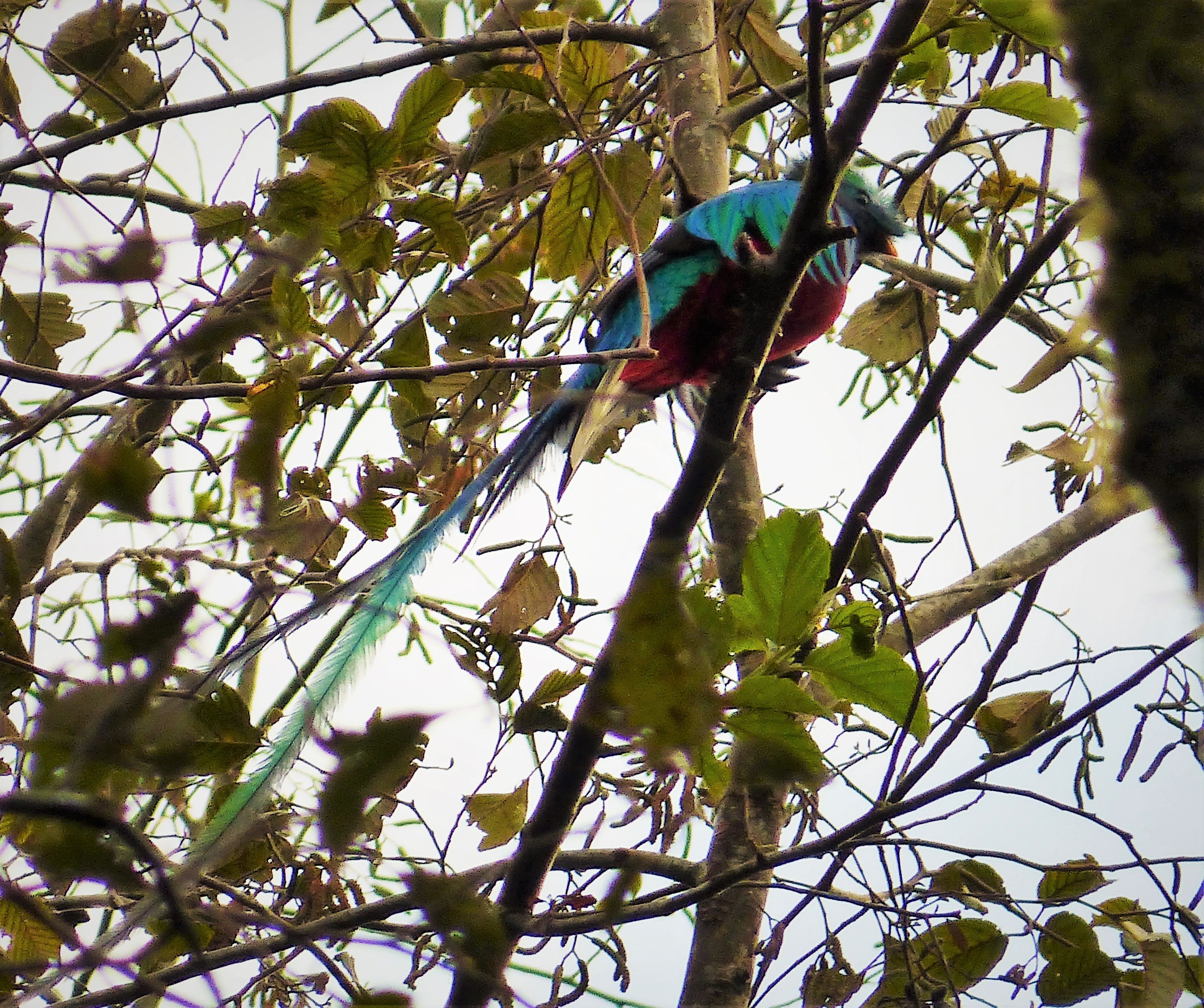 Splendid views of ten males flying around us, but difficult tp photograph, high in the canopy against the light. A lifetime memory. Quetzal trail, Volcan baru, Chiriqui Prov. Panama